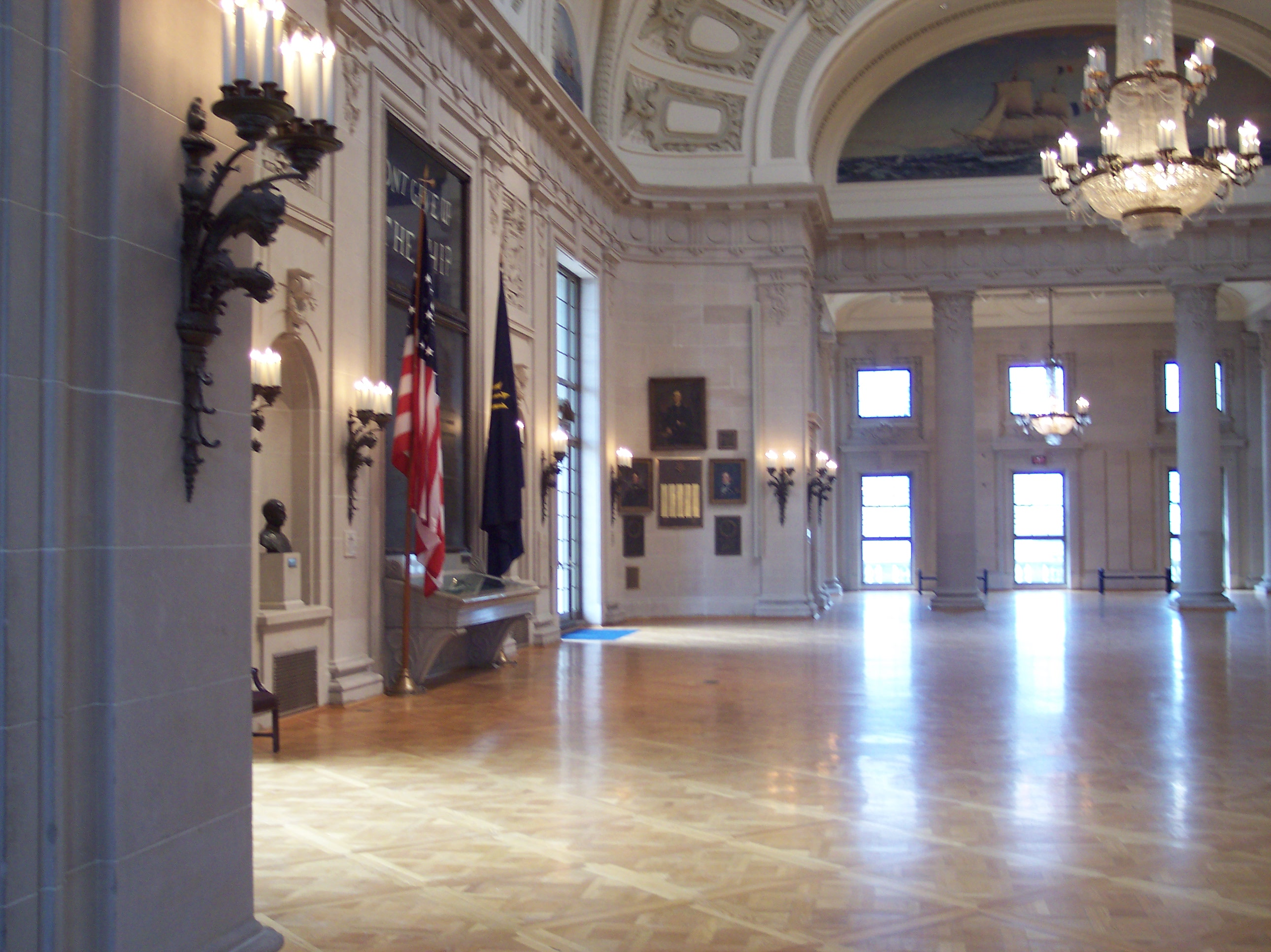 United States Naval Academy